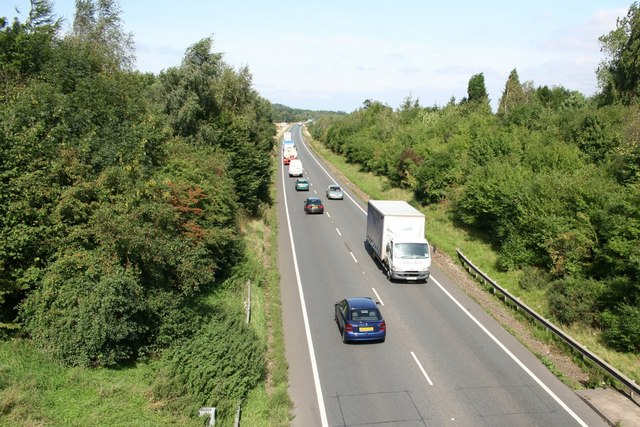 A15 near Scawby. Looking north towards the junction with the M18 from Greetwell Road bridge